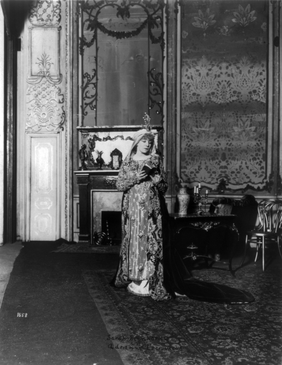 Sarah Bernhardt, full length portrait, standing, facing right; in "Adrienne Lecouvreur"